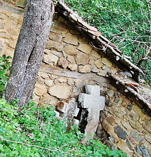 Bilintsimonastery yard BG